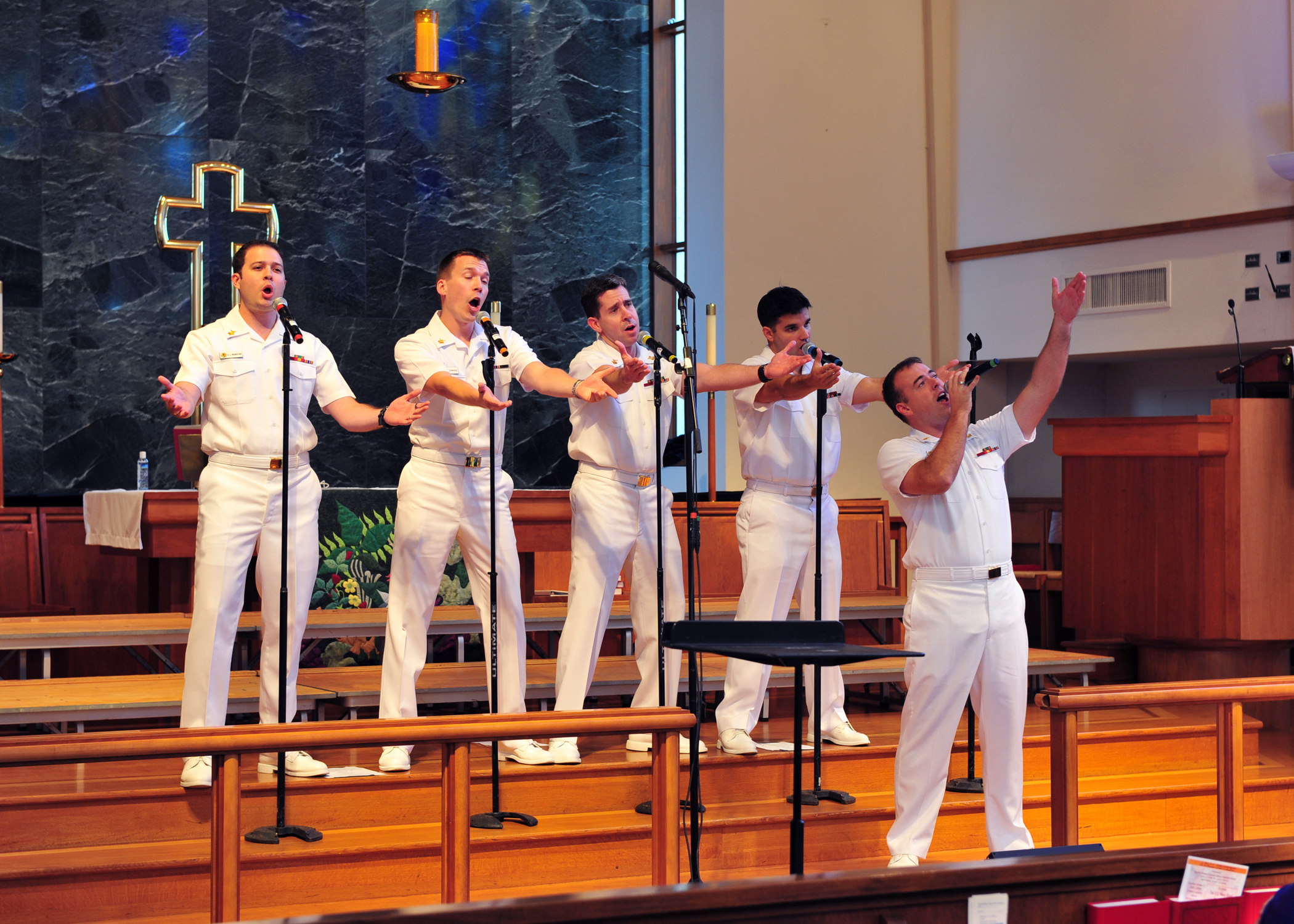 SPRINGFIELD, Va. (Oct. 3, 2009) Members of the U.S. Navy Band Sea Chanters chorus perform at St. Marks Lutheran Church in Springfield, VA. The U.S. Navy Band in Washington, D.C. is the Navy's premier musical organization and performs public concerts and military ceremonies in the greater Washington area and beyond. (U.S. Navy photo by Musician 1st Class Jeff Snavely/Released)